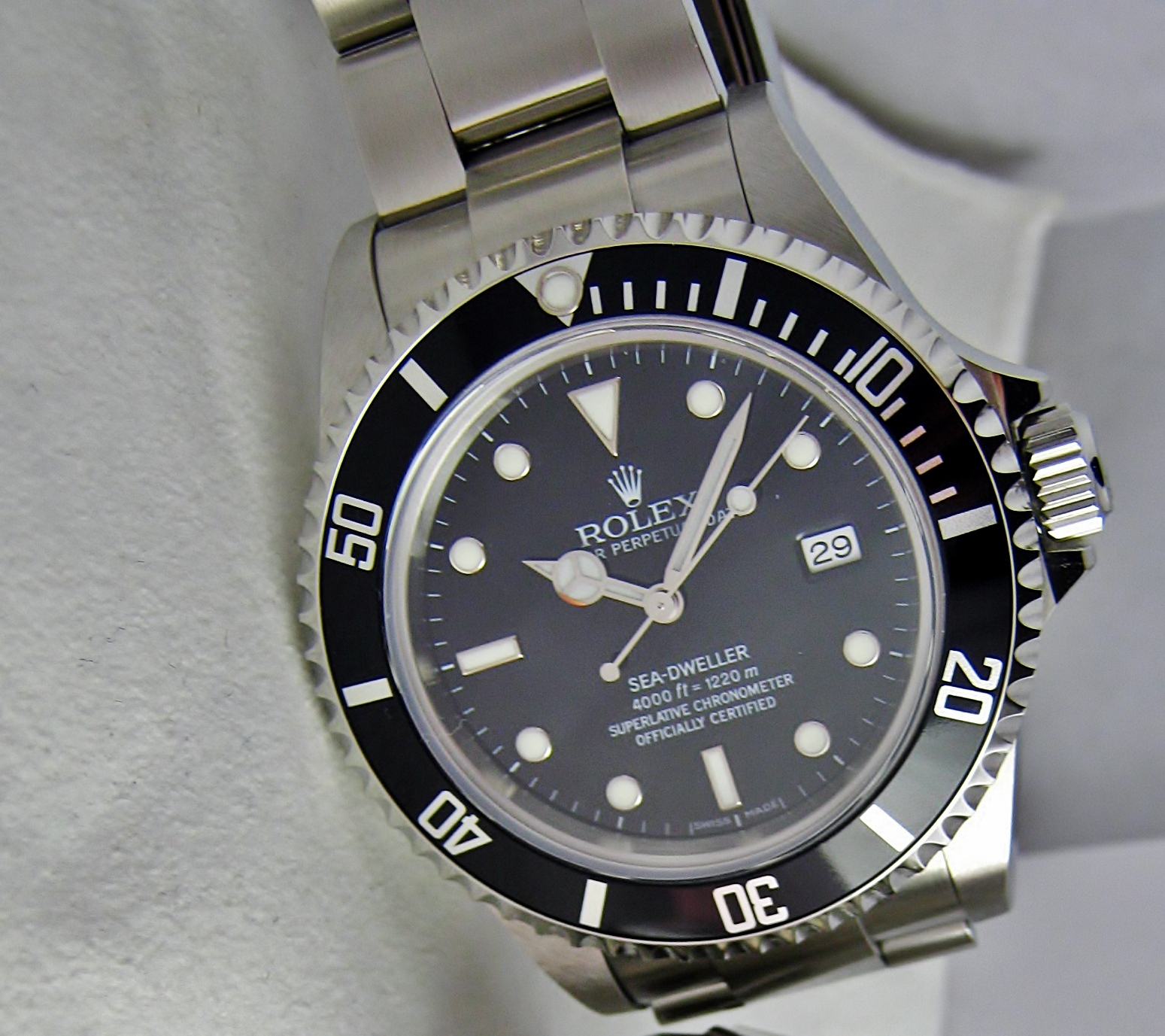 The Rolex Sea-Dweller 16600 is a automatic dive watch with a stainless steel case and bracelet,The 16600 was superseded in 2008. by the Deepsea 116660. .